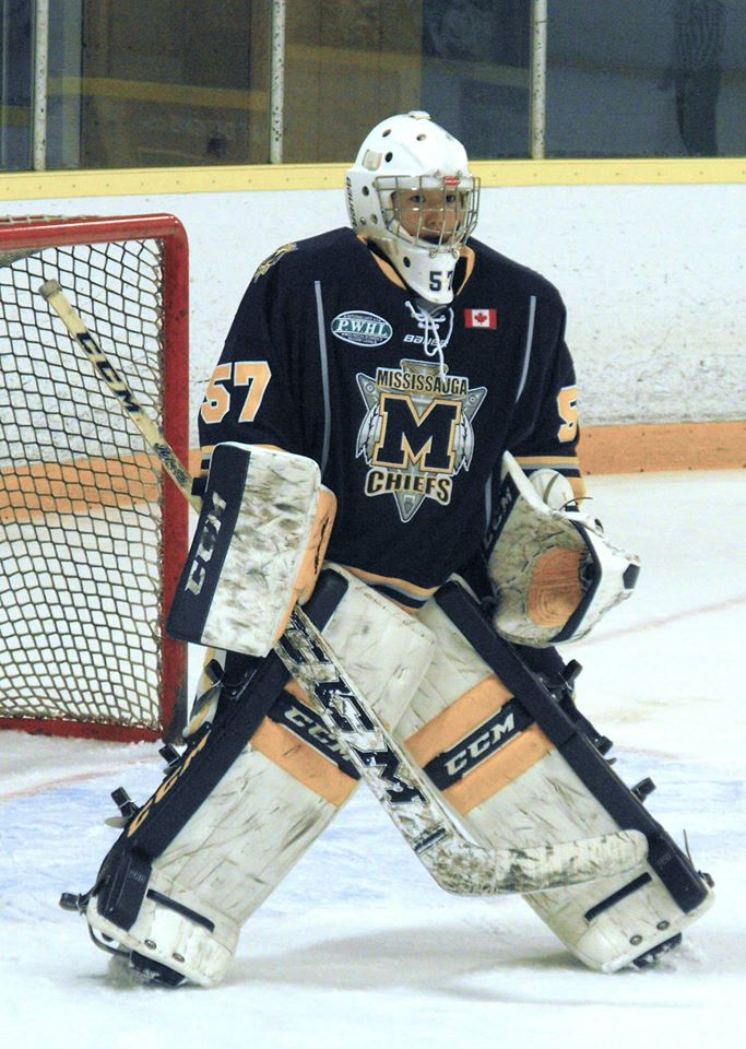 This photo was taken by Devan Mighton during the 2014-15 PWHL season.